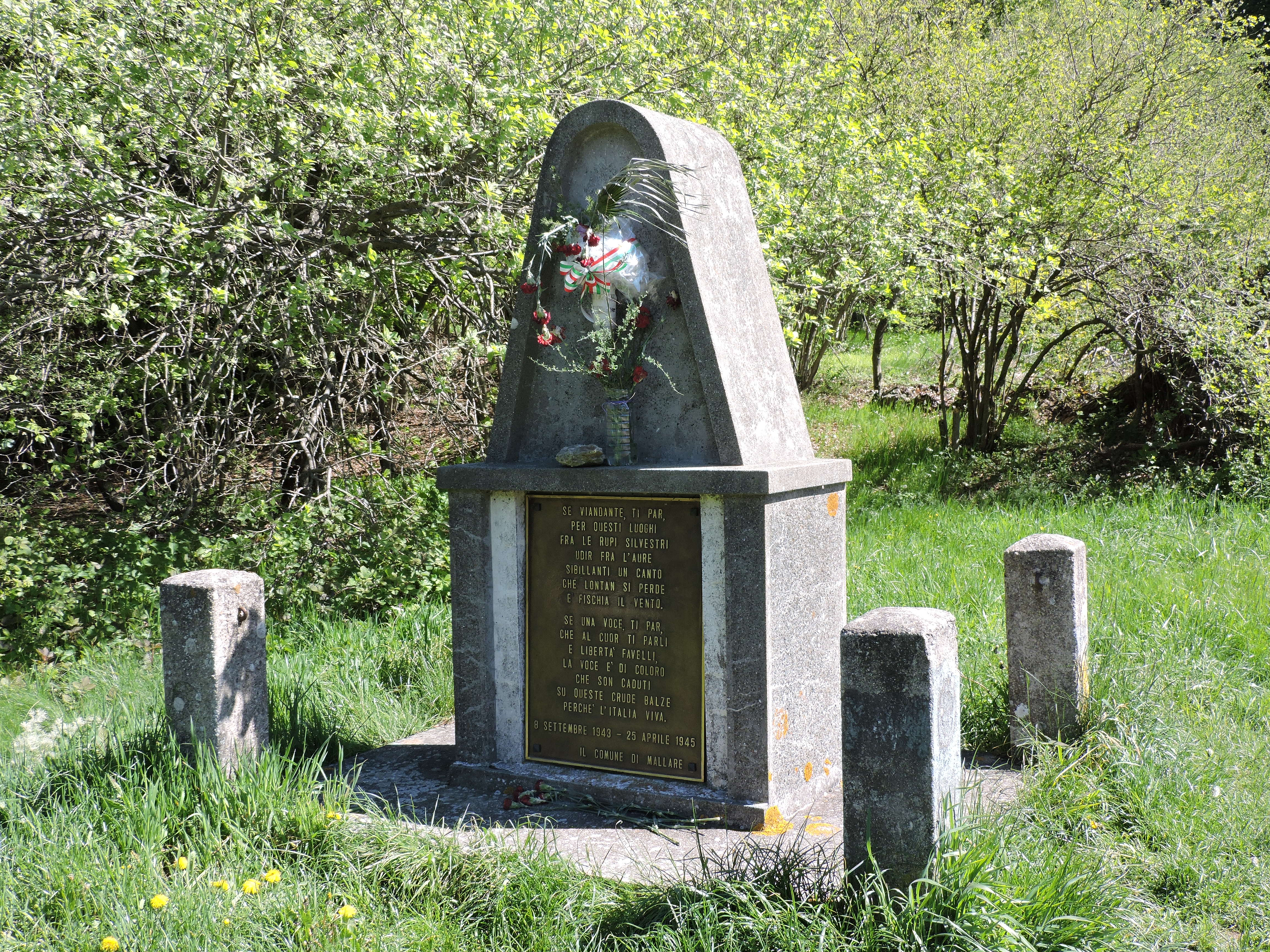 Colla di San Giacomo (Ligurian Alps, Italy): Italian resistance memorial